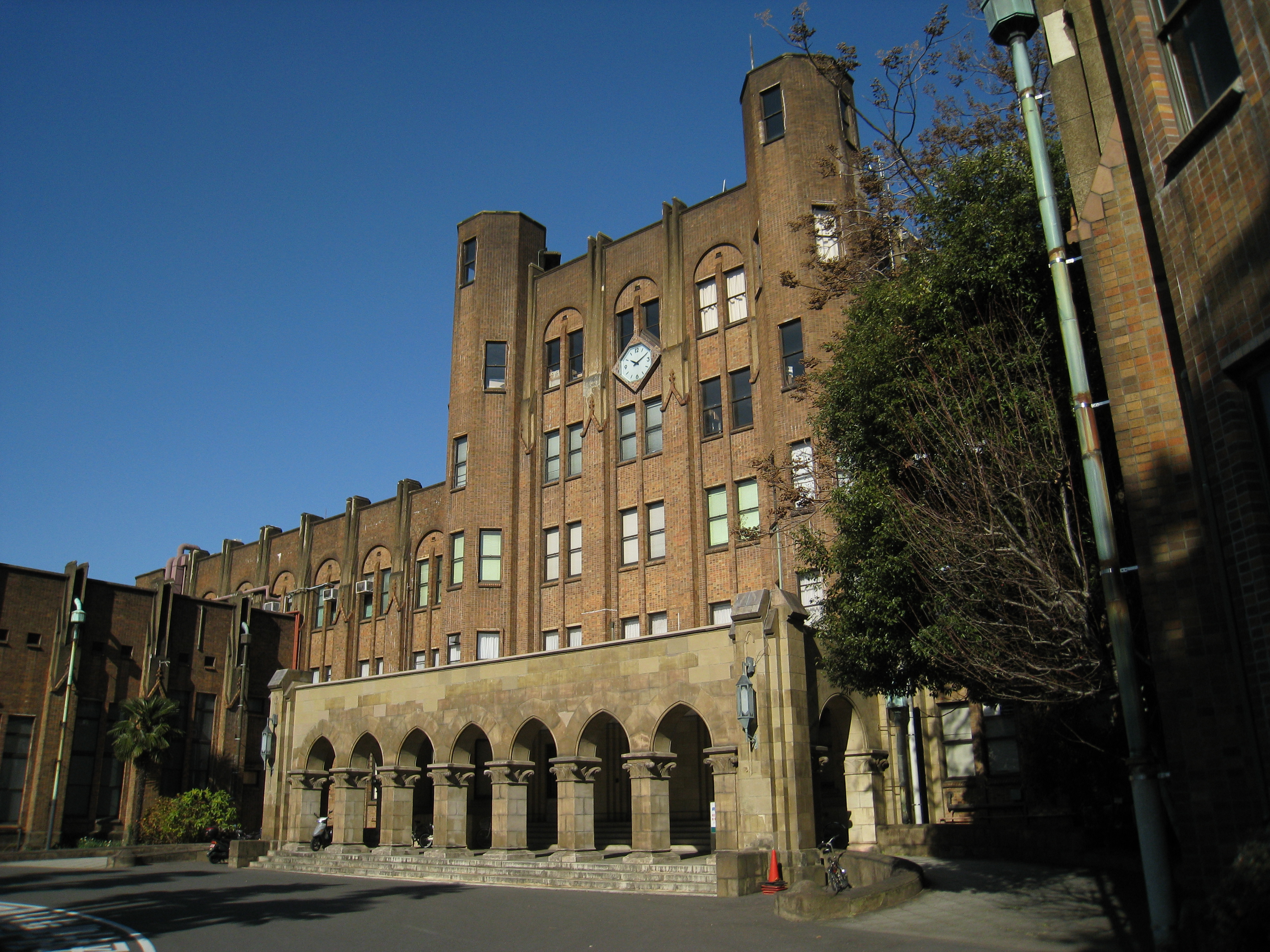 Research Hospital The Institute of Medical Science The University of Tokyo